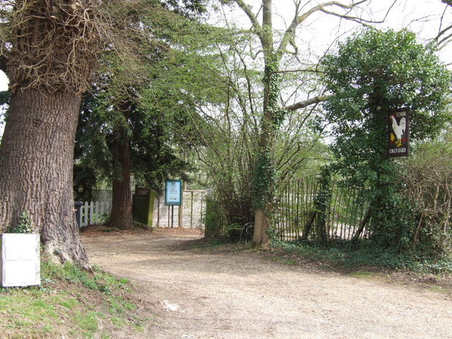 Entrance to Tewin Orchard Nature Reserve The nature reserve has a hide for watching badgers.